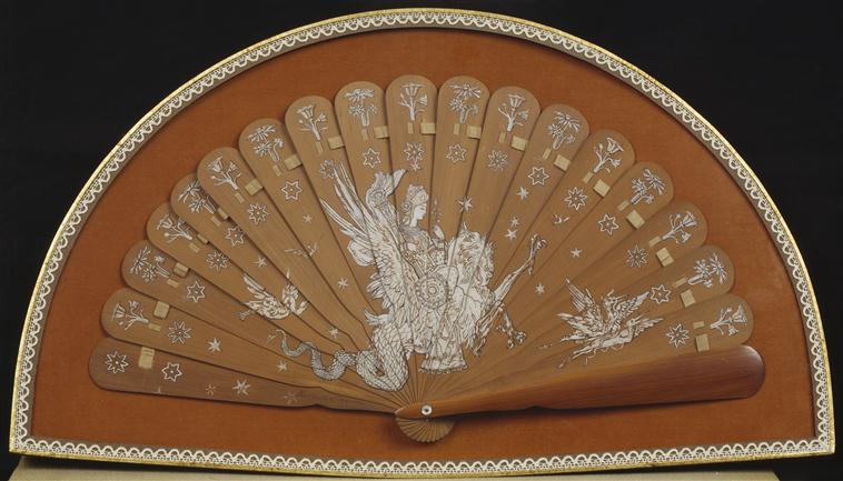 La Péri - Eventail, Inv.15484